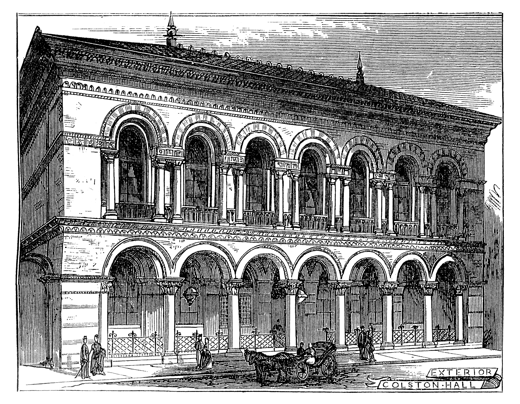 Exterior of Colston Hall in Bristol. Cropped from Image:Bristol 1873 - Top half.png, upper right corner retouched to remove an overlapping crest. (Original title "The Bristol Music Festival: Views in Bristol")